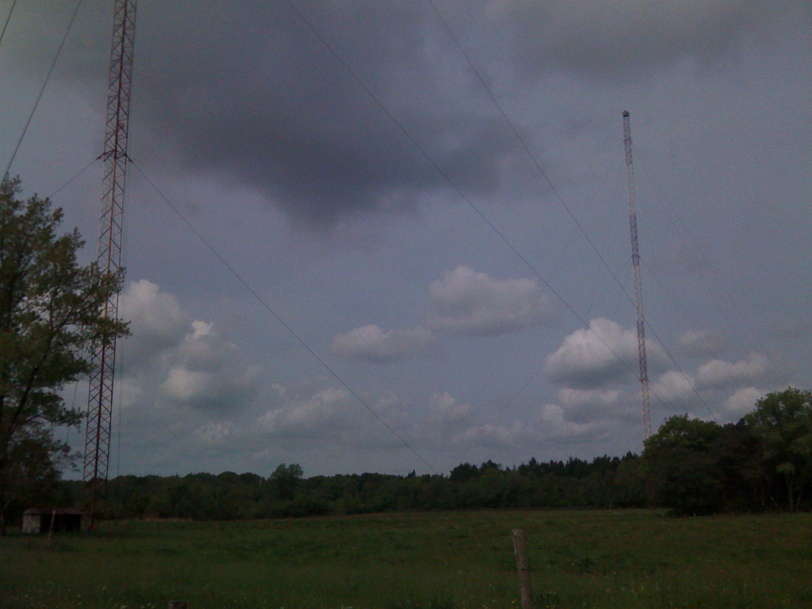 Radio transmitter towers of the Radio Maritieme Diensten "Radio Naucical Services" at Ruiselede, in West Flanders, Belgium.